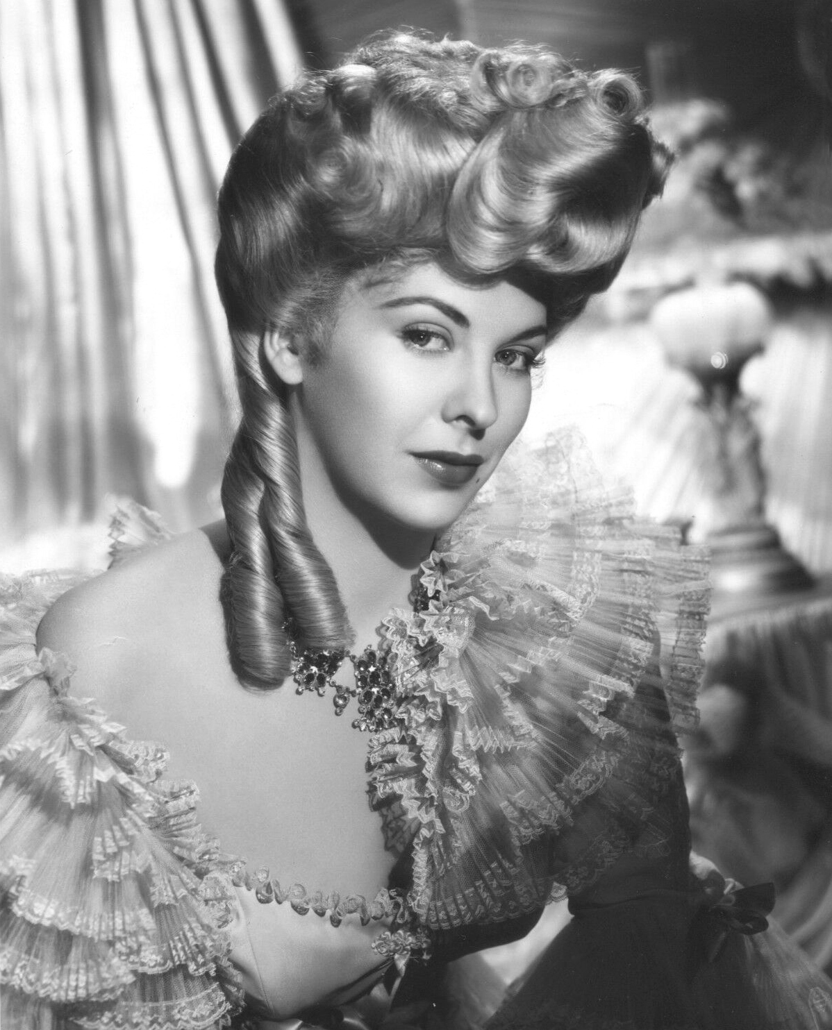 Publicity photo of Andrea King for the Warner Bros. feature My Wild Irish Rose